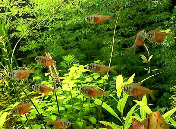 A small school of von rio (or flame) tetras.